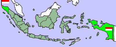 Indonesia from Sabang to Merauke. Aceh and Western New Guinea highlighted